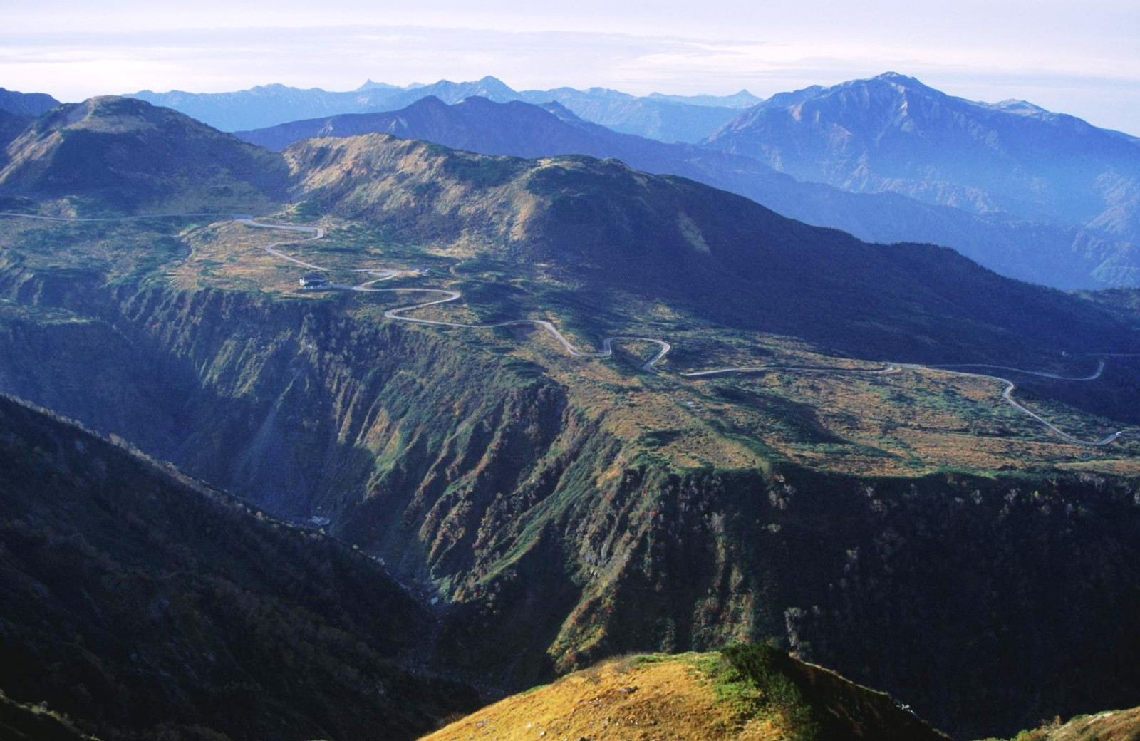 Midagahara plateau as seen from the Mount Okudainichi